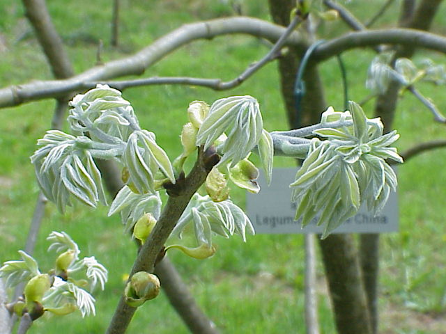 Species: Maackia amurensis Family: Fabaceae Image No. 1